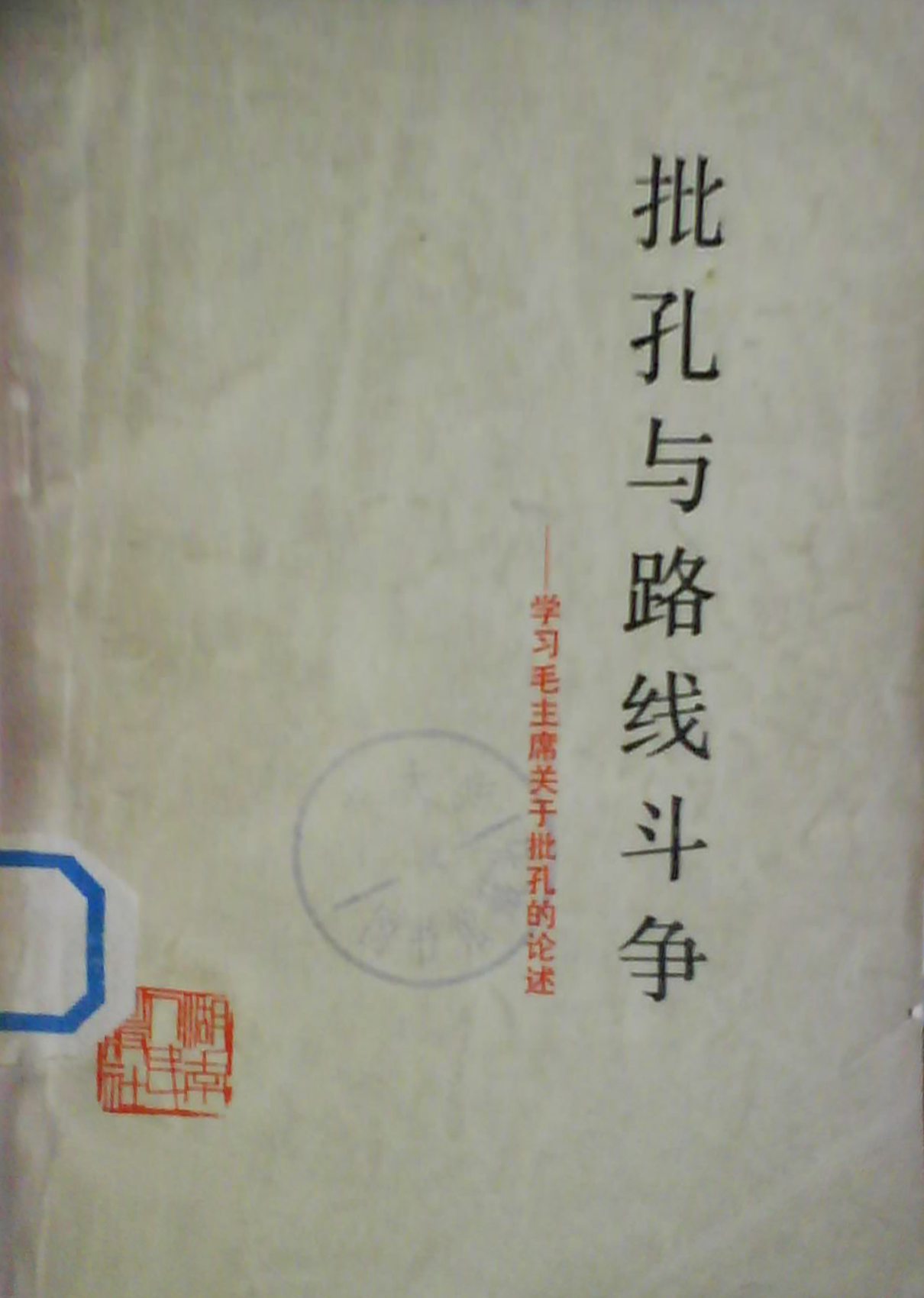 An old Chinese book which criticizes Confusius